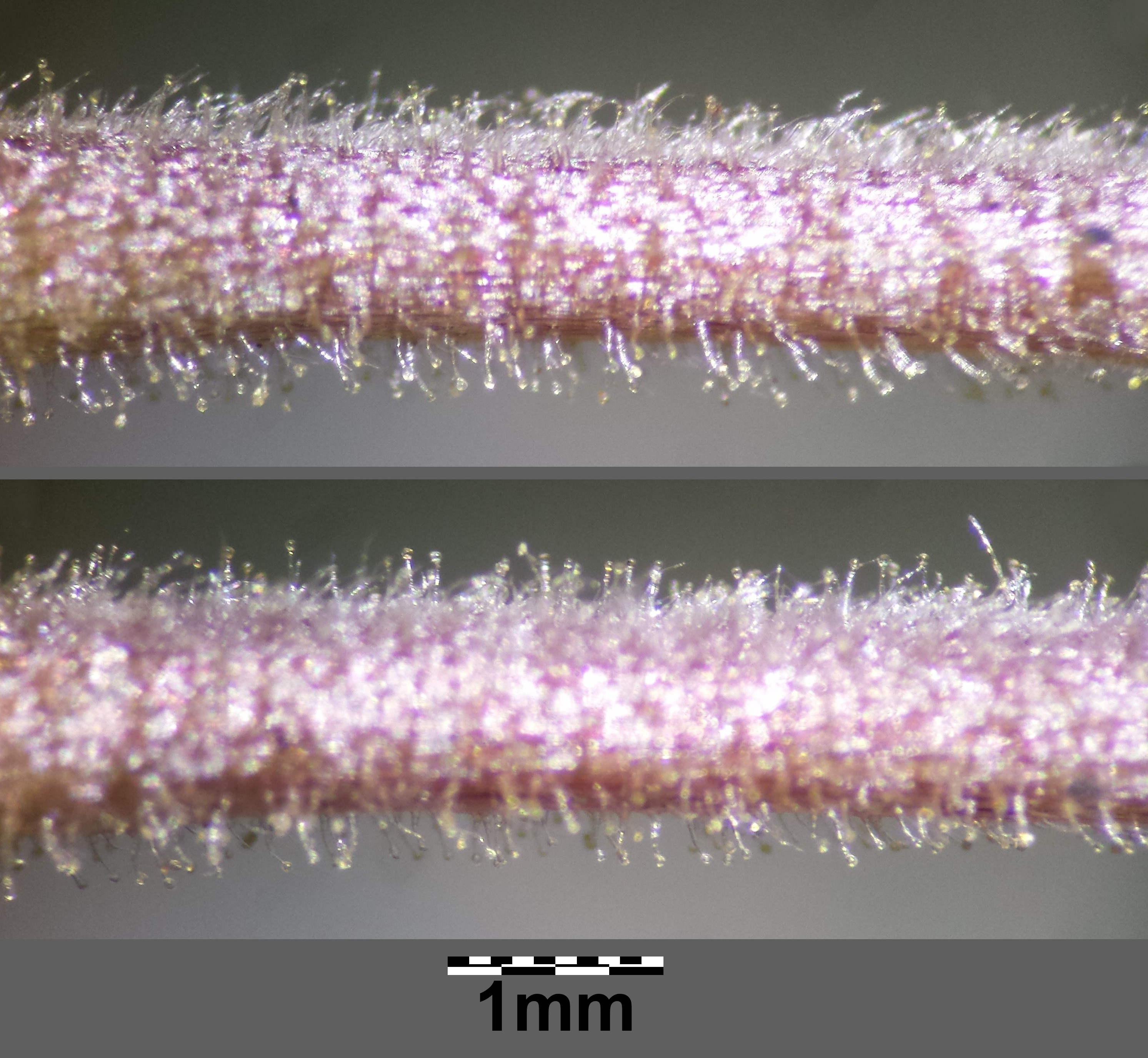 Lowermost internode of stipe Taxonym: Cerastium pumilum s. str. ss Letz D. R., Dančák M., Danihelka J. & Šarhanová P., 2012: Taxonomy and distribution of Cerastium pumilum and C. glutinosum in Central Europe. – Preslia 84: 33–69, cf. errata in Neilreichia 7, S. 238 Location: Michelberg, district Korneuburg, Lower Austria - ca. 409 m a.s.l. Habitat: semi dry grassland